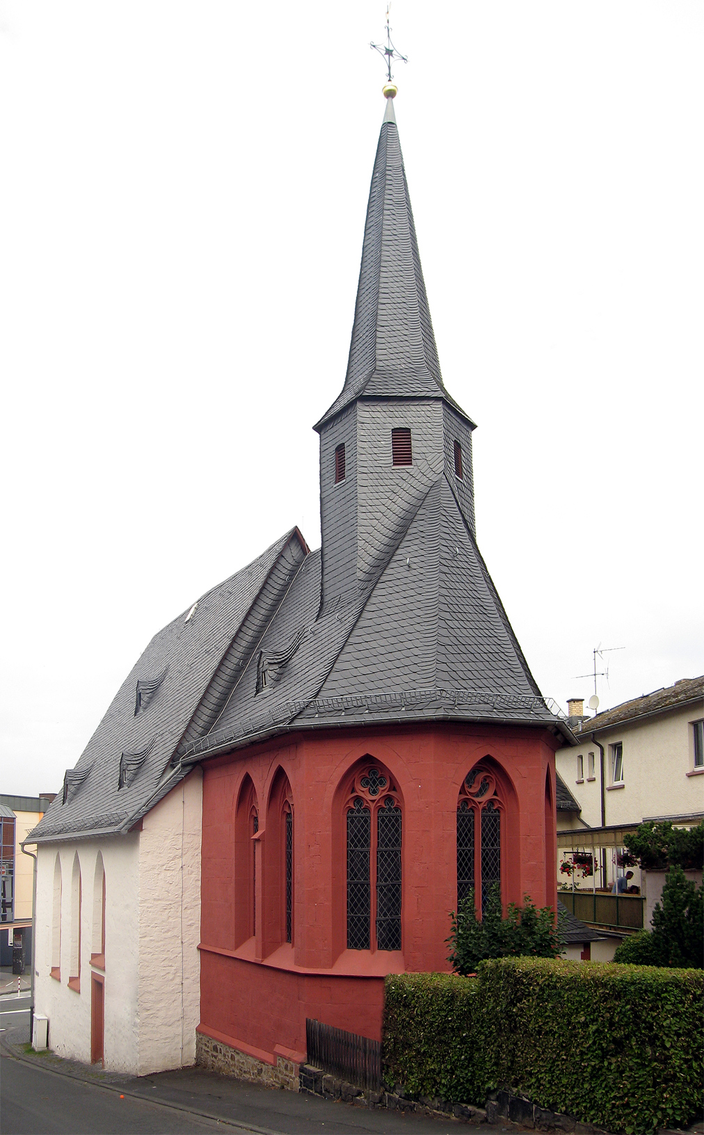 The Hospitalkirche of Biedenkopf